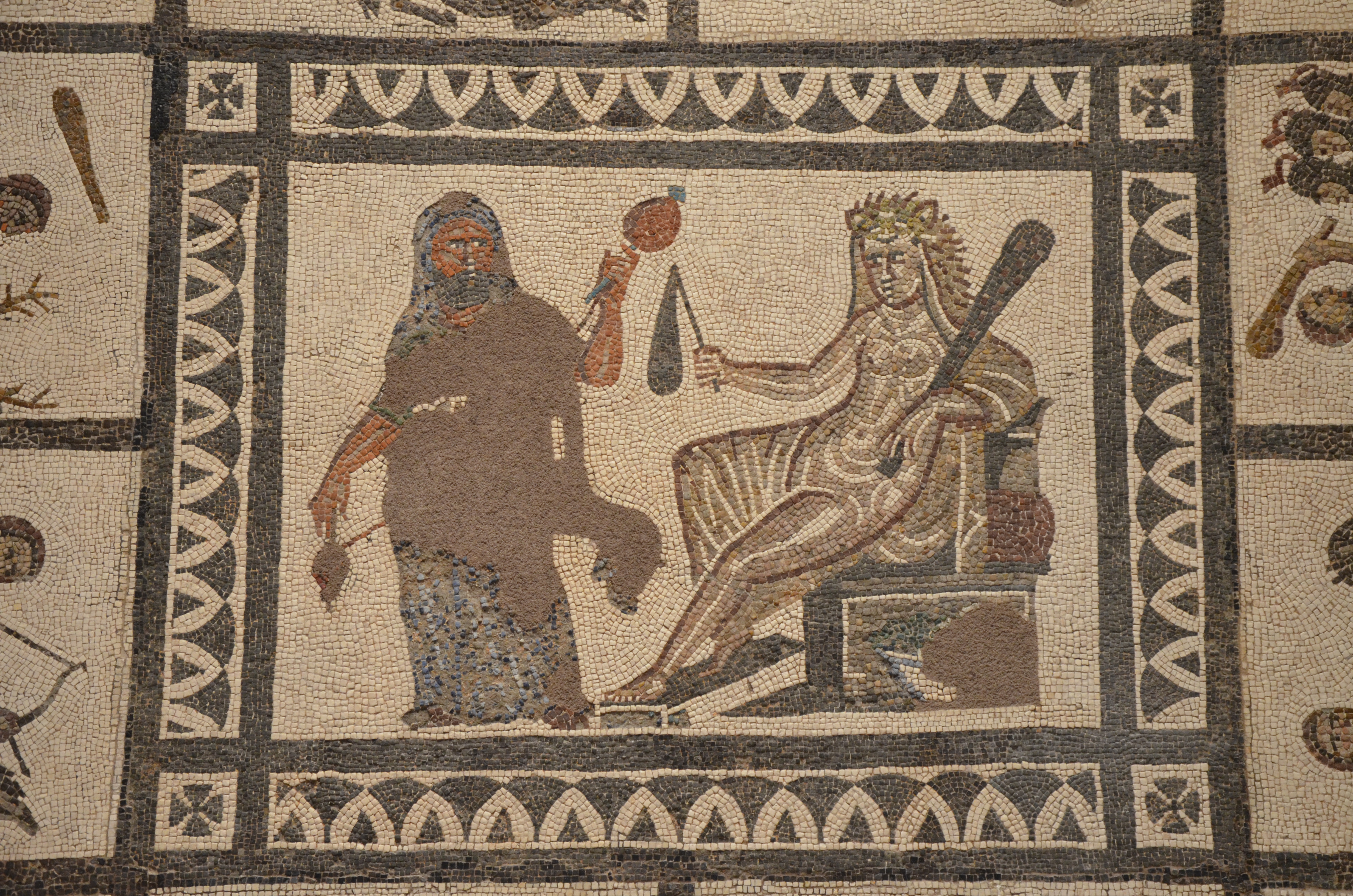 Central panel of the Mosaic with the Labors of Hercules, 3rd century AD, found in Llíria (Valencia), National Archaeological Museum of Spain, Madrid